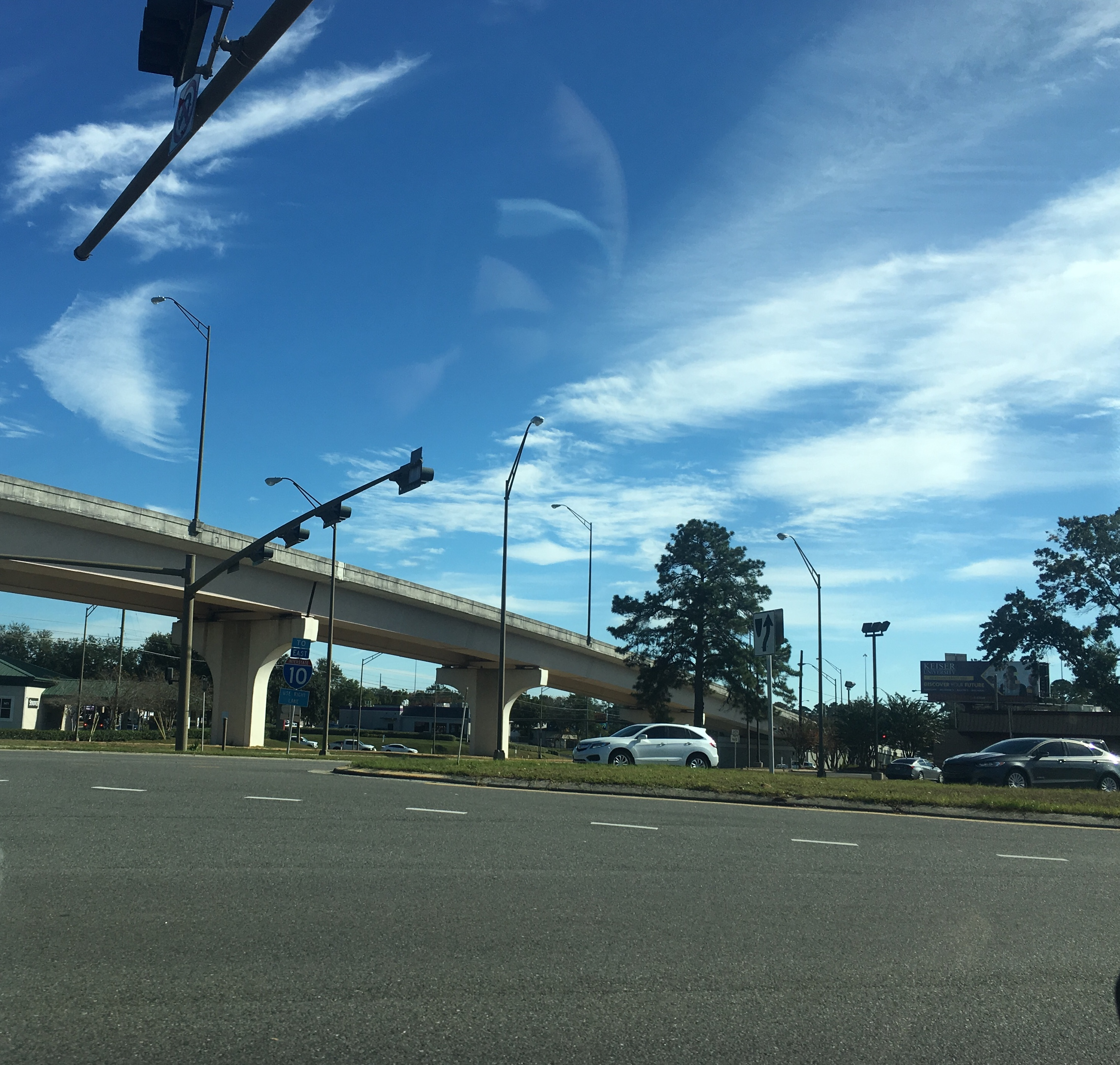 Veterans Memorial Bridge (Tallahassee)